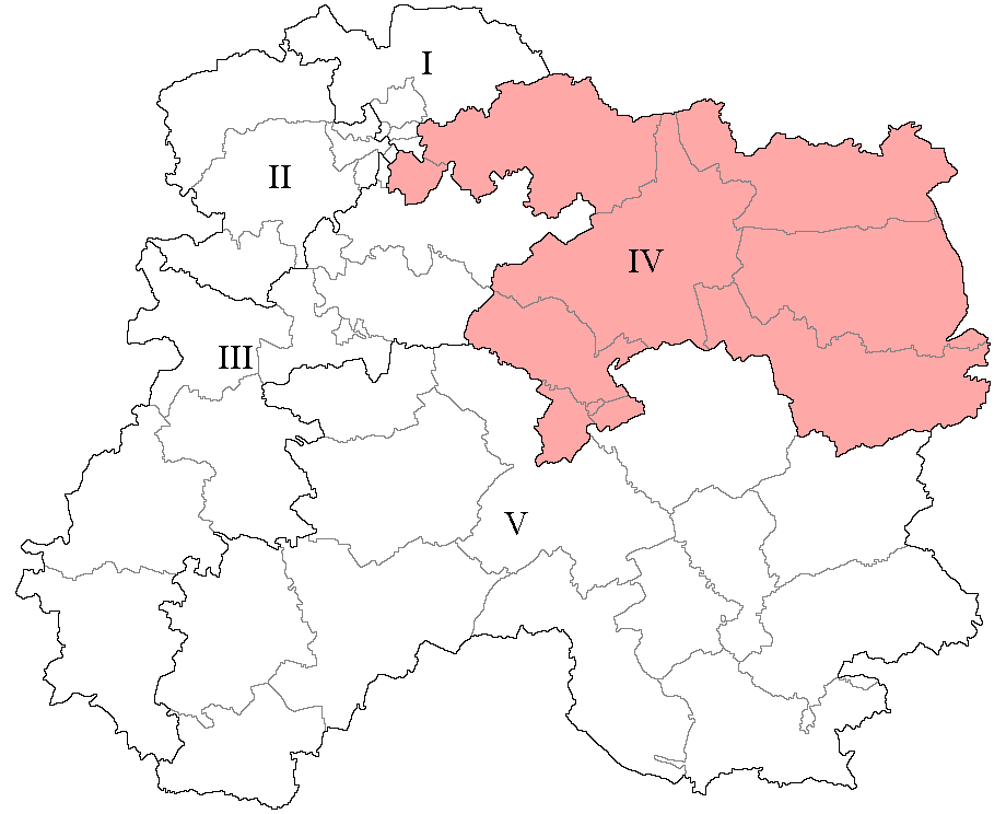 Locator map of the Marne's 4th constituency since 2012.